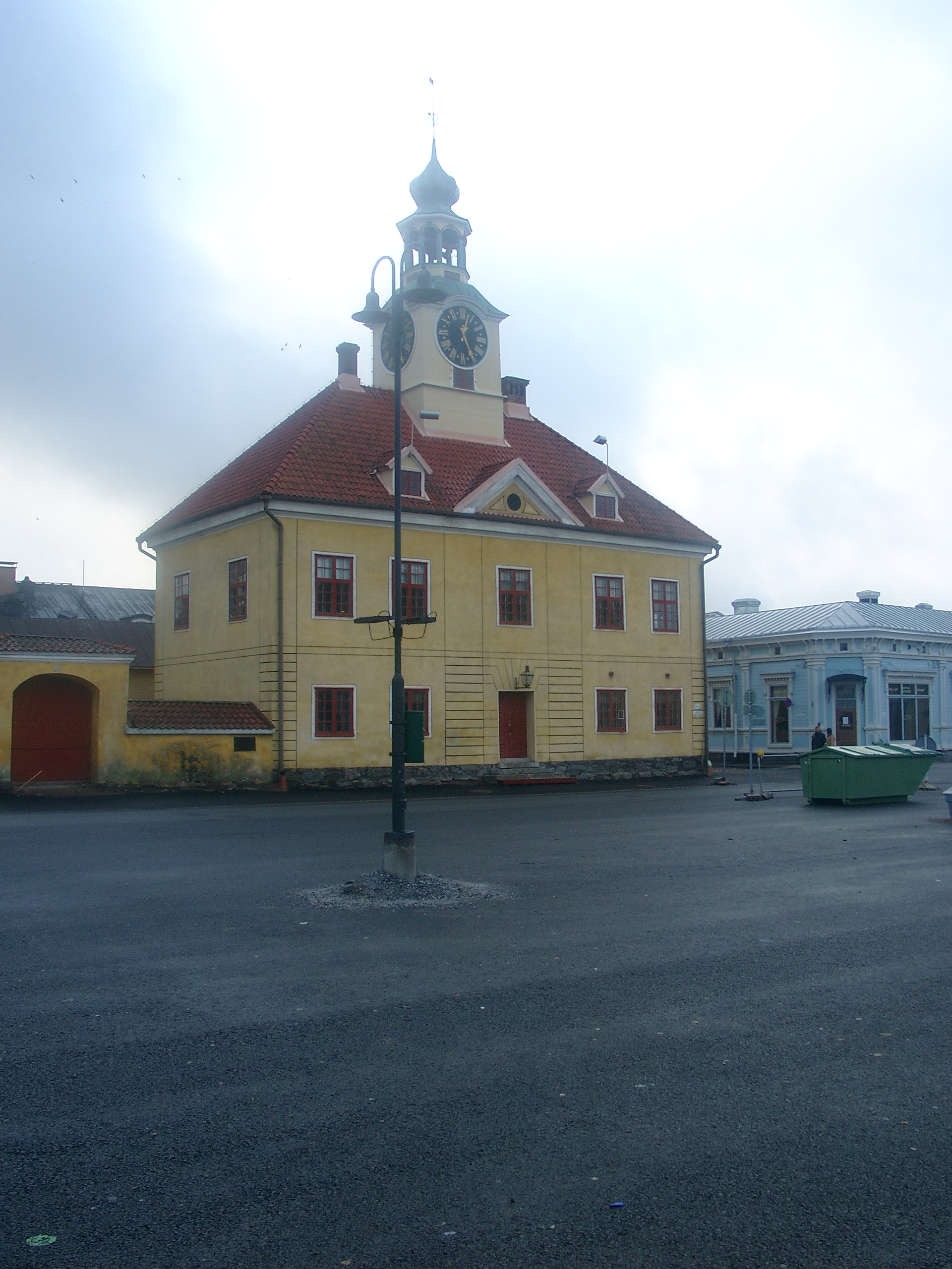 Rauma old town hall, Finland